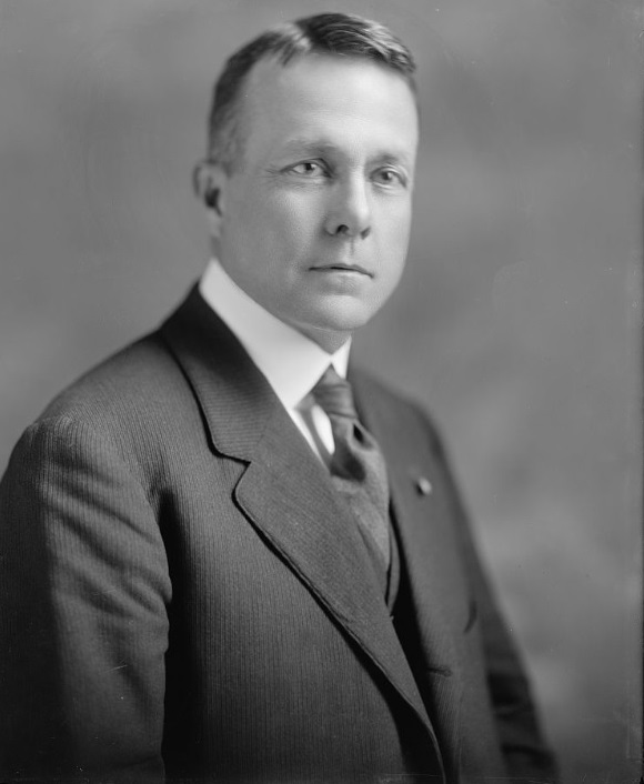 William W. Griest (Pennsylvania Congressman)